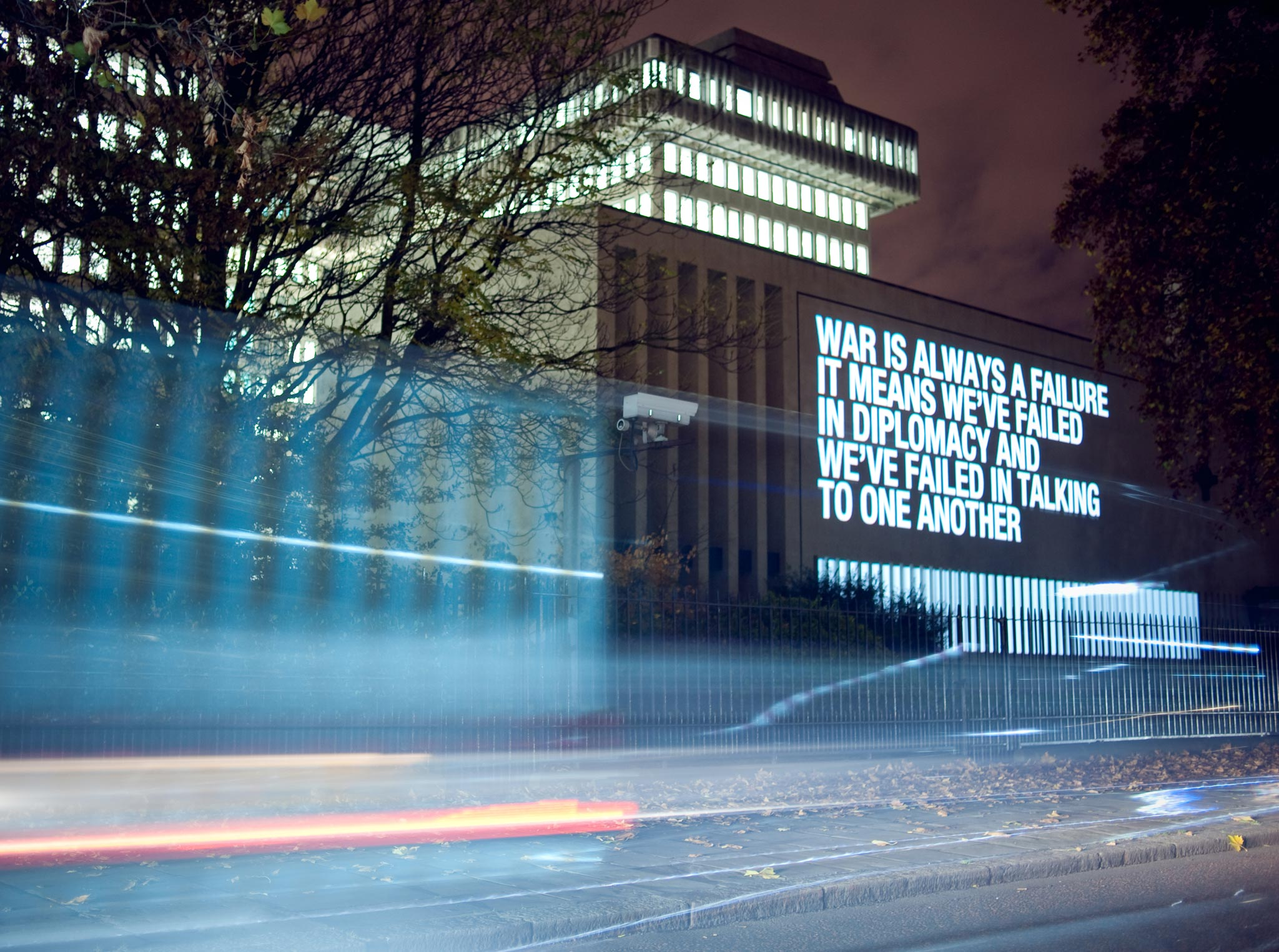 Text projections by public artist Martin Firrell onto the North elevation of the Royal Military Chapel (The Guard's Chapel) London. Commissioned by Major General Bill Cubitt for the Household Division of the British Army. Titled 'Complete Hero' the artwork explored contemporary definitions of heroism.